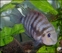 Convict cichlid. Photo: Dr. David Midgley own photo, own fish. Category:Cichlid images